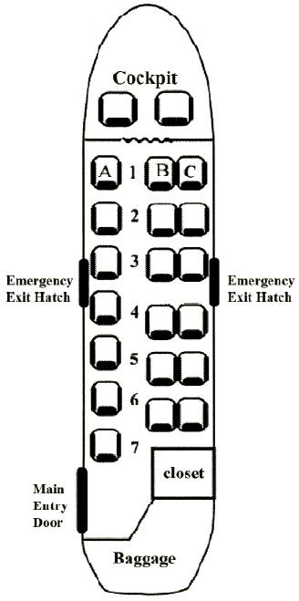 Taken from Pg. 13 (23 of 110) of the Corporate 5966 NTSB report